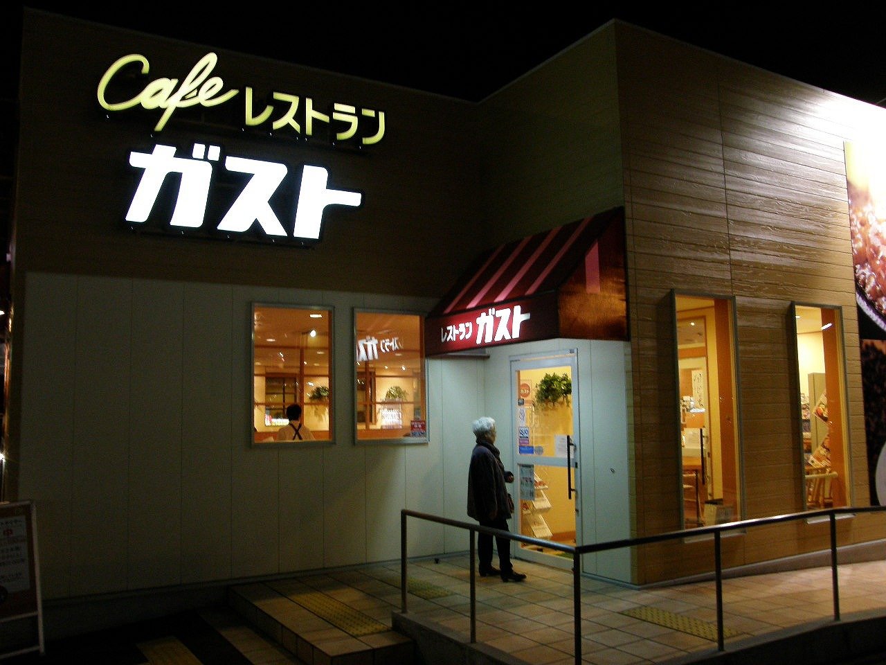 CAFE－RESTAURANTガスト